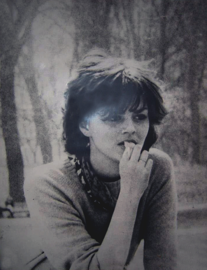 Dušica Pešić, a journalist from Niš (Serbia)